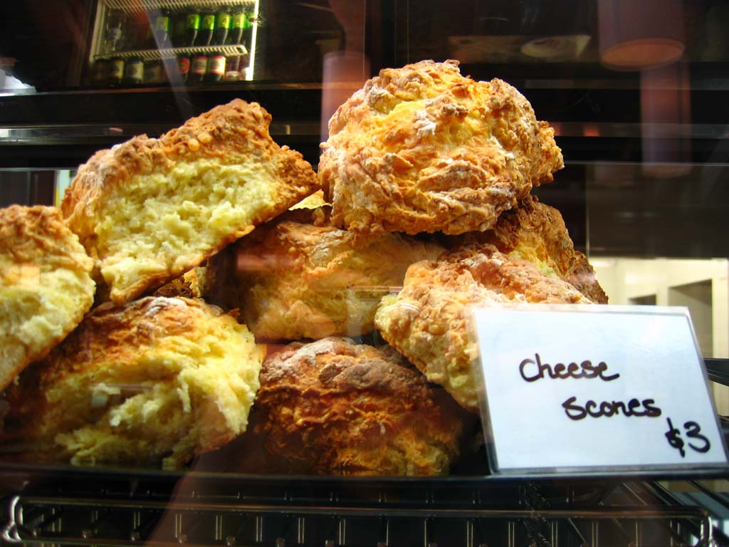 At Eva Dixon's. Yum!